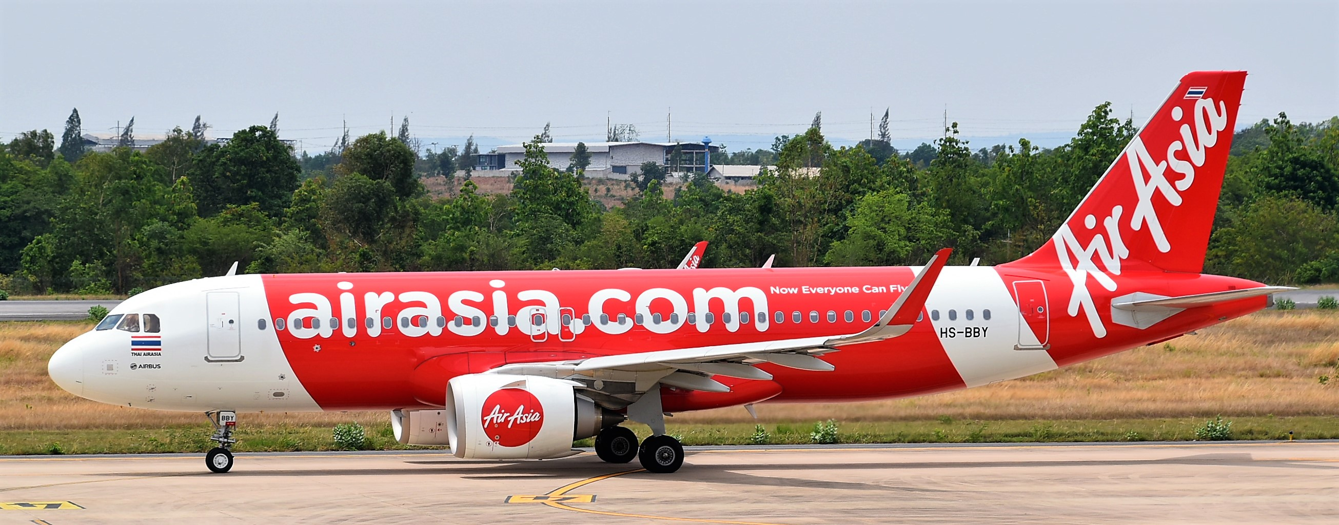 Airbus A320NEO (SL) of Thai AirAsia at Khon Kaen-KKC, Thailand, 17/04/17.